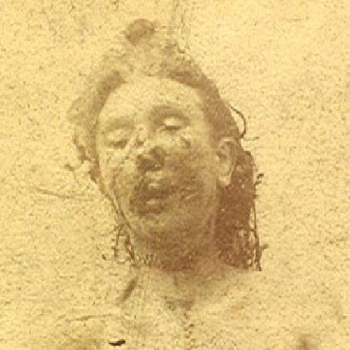 Victorian mortuary photograph of murder victim Catherine Eddowes